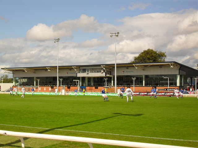 Pavilion, Drumbo Park This is the impressive pavilion at Drumbo Park greyhound track ('Ballyskeagh' to most of us). It houses a restaurant and bar with views onto the track (it is never open during Lisburn Distillery football matches) - it is part of an effort to promote greyhound racing as 'Northern Ireland's New Night Out'.